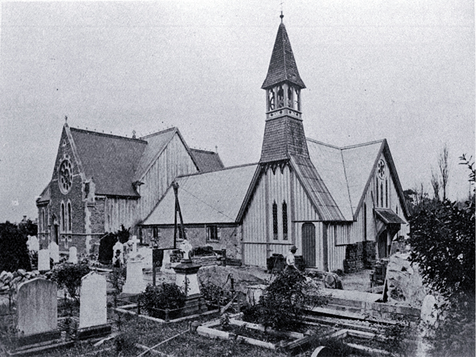 Church of the Holy Trinity, Avonside. With the removal of the original sod church of the Holy Trinity, Avonside, which formed the centre portion of the present church, an old landmark has disappeared. It was the second church built in Christchurch, dating back to 1855, the first being St Michael's. Among the early settlers in the Avonside district was Rev Charles Mackie, whose home, Stricklands, gave its name to Strickland Street. In 1855 the first service was held in Mr Mackie's house, and from that time regular services were held on alternate Sundays at Stricklands and at Broome farm (now Dallington), then occupied by Mr John Dudley.